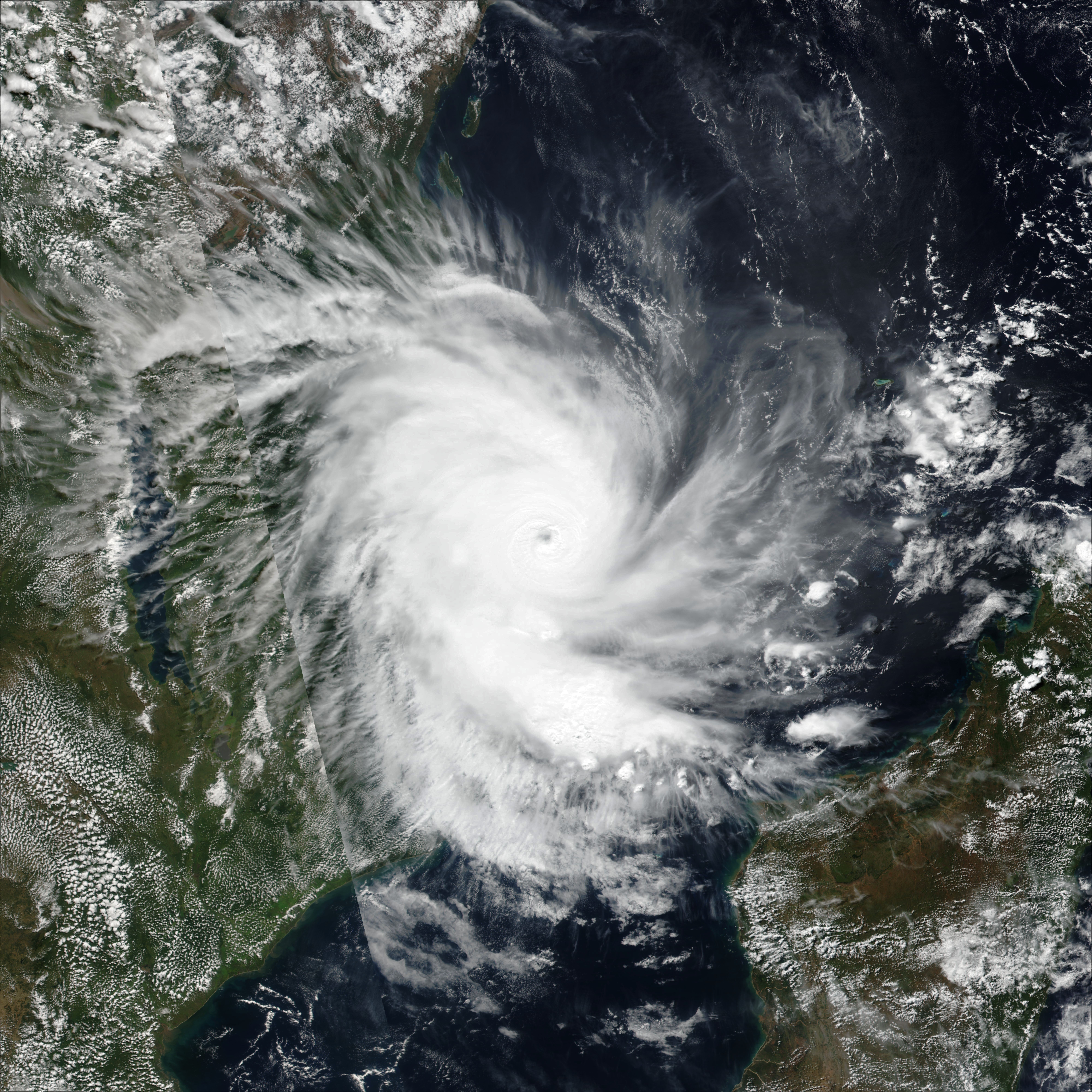 Cyclone Kenneth before landfall just east of Pemba as a Category 2 tropical cyclone on April 25, 2019